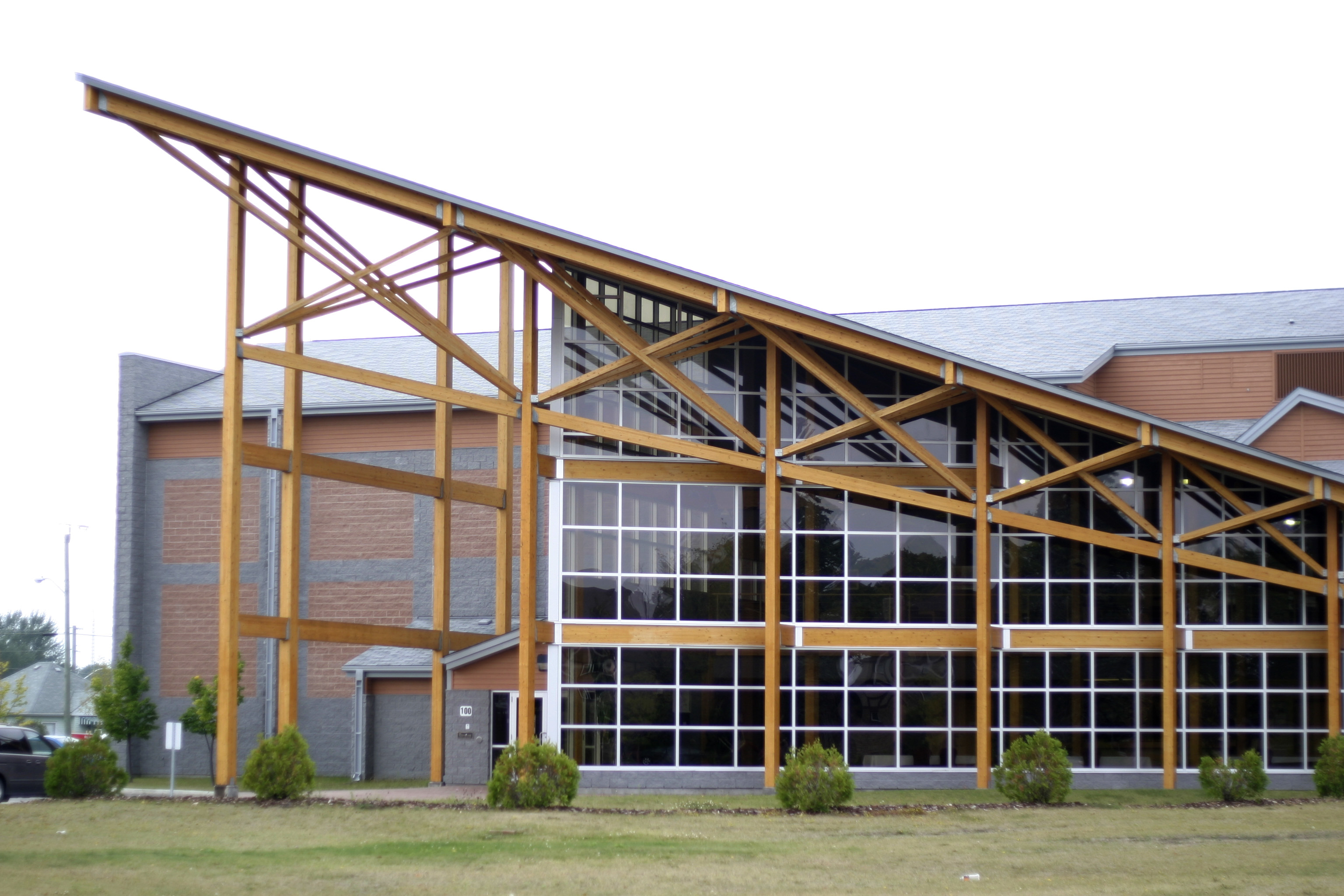 Dryden Ontario Auditorium